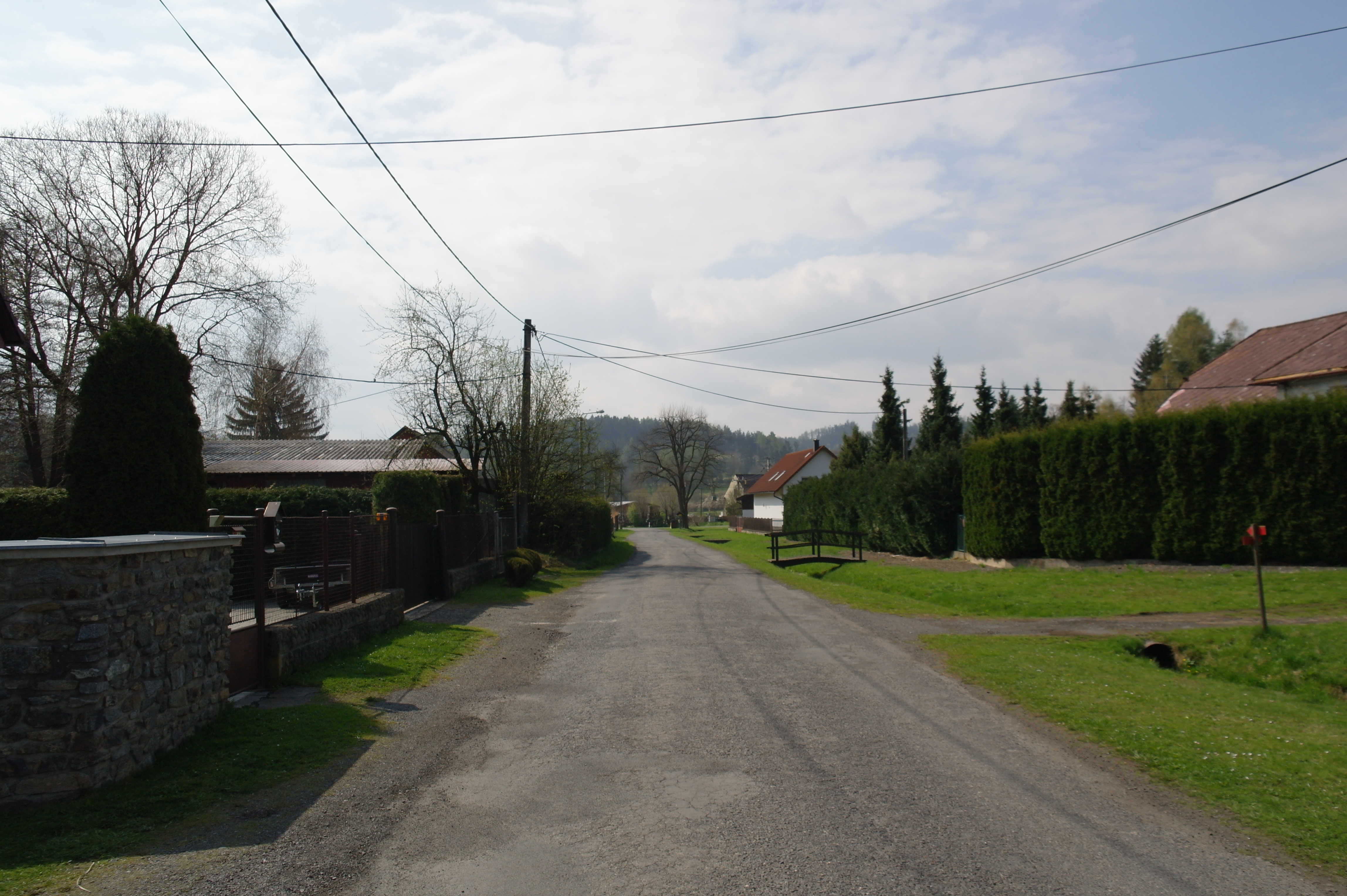 Street in Kašovice, Klatovy District, Czech republic.